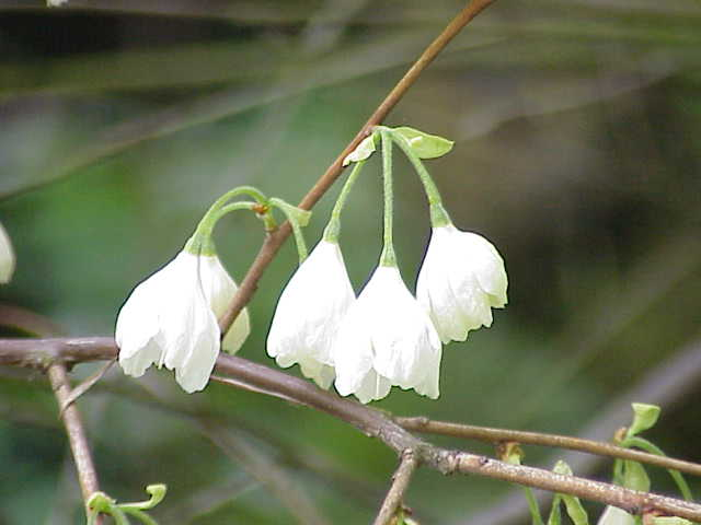 Species: Neillia thibetica Family: Rosaceae Image No. 1